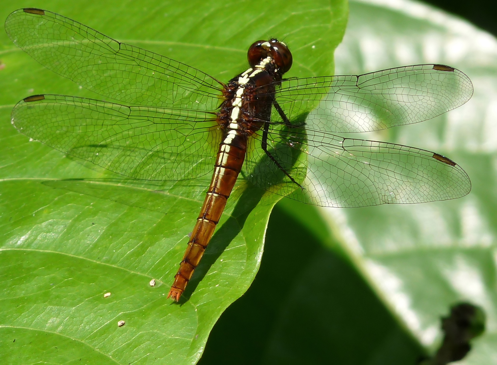 Rhodothemis rufa, female Rhodothemis rufa, Rufous Marsh Glider, is a large red dragonfly with transparent wings. Both Rhodothemis rufa and Crocothemis servilia have red eyes but R. rufa lacks the black strip on the dorsal of abdomen. Further, they prefer to perch on leaves with wings wide open, hanging vertically; rarely perch straight on a bare twig. Although it is difficult to distinguish the males from other red dragonflies, the females can be easily distinguishable by their mid-dorsal yellow stripe. This yellowish streak runs from occipital triangle through pro-thorax down to abdomen segment 6. They have a unique yellow strip on the upper frons too. Taken at Kadavoor, Kerala, India.